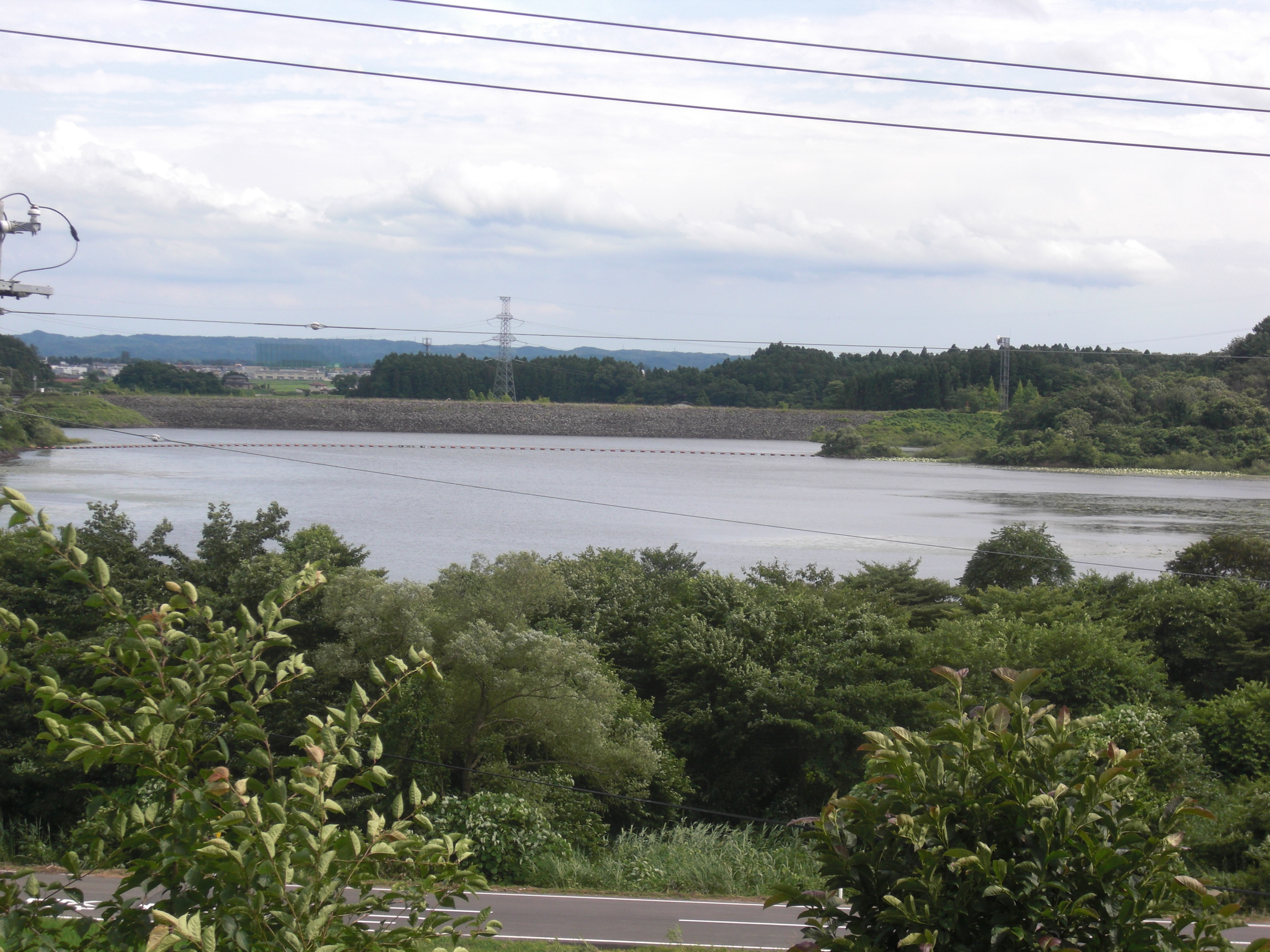 This is the photo of Kejonuma in Osaki, Miyagi, Japan. This photo was taken from Tohoku Expressway Chojahara Service Area.